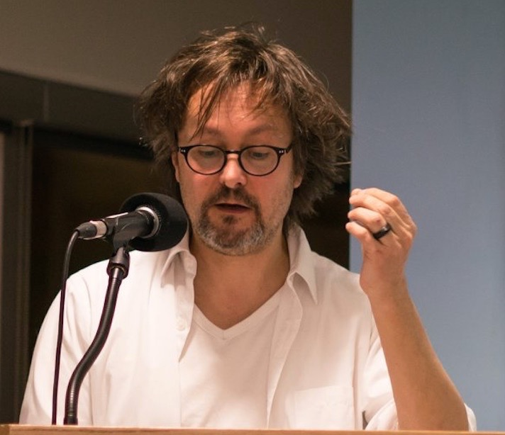 pic of frederic neyrat